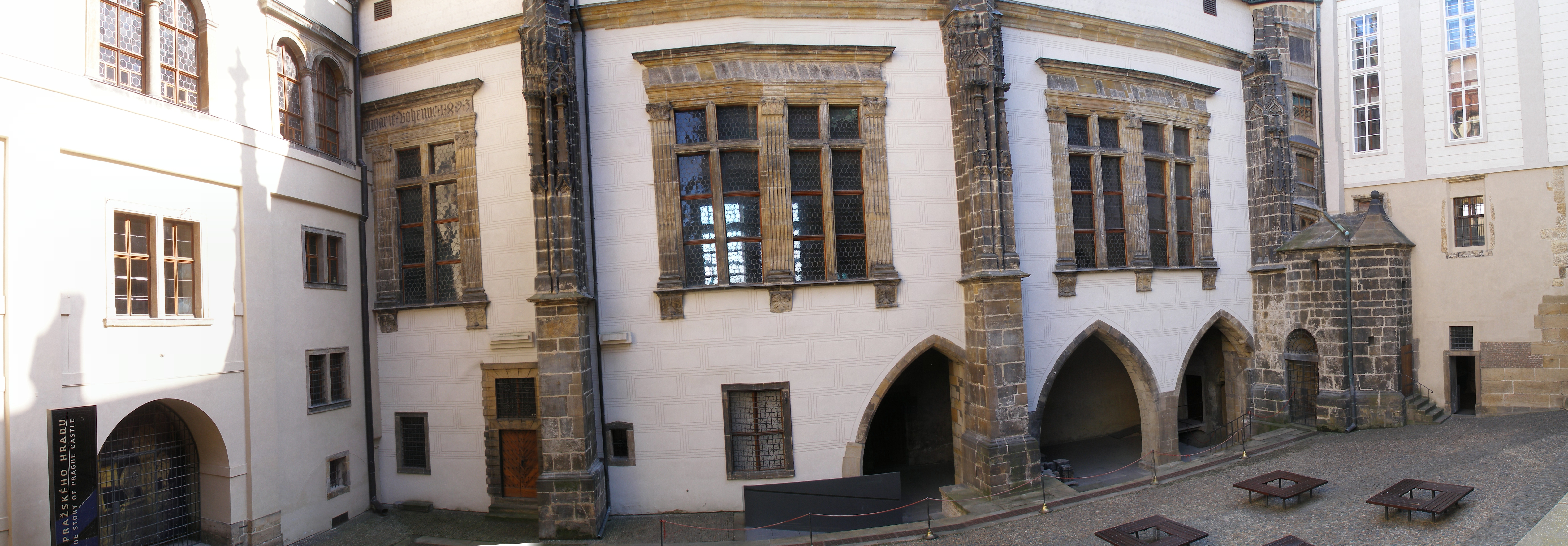 Old Royal Palace in Prague Castle from north.